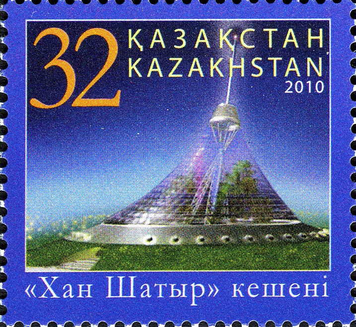 Stamps of Kazakhstan